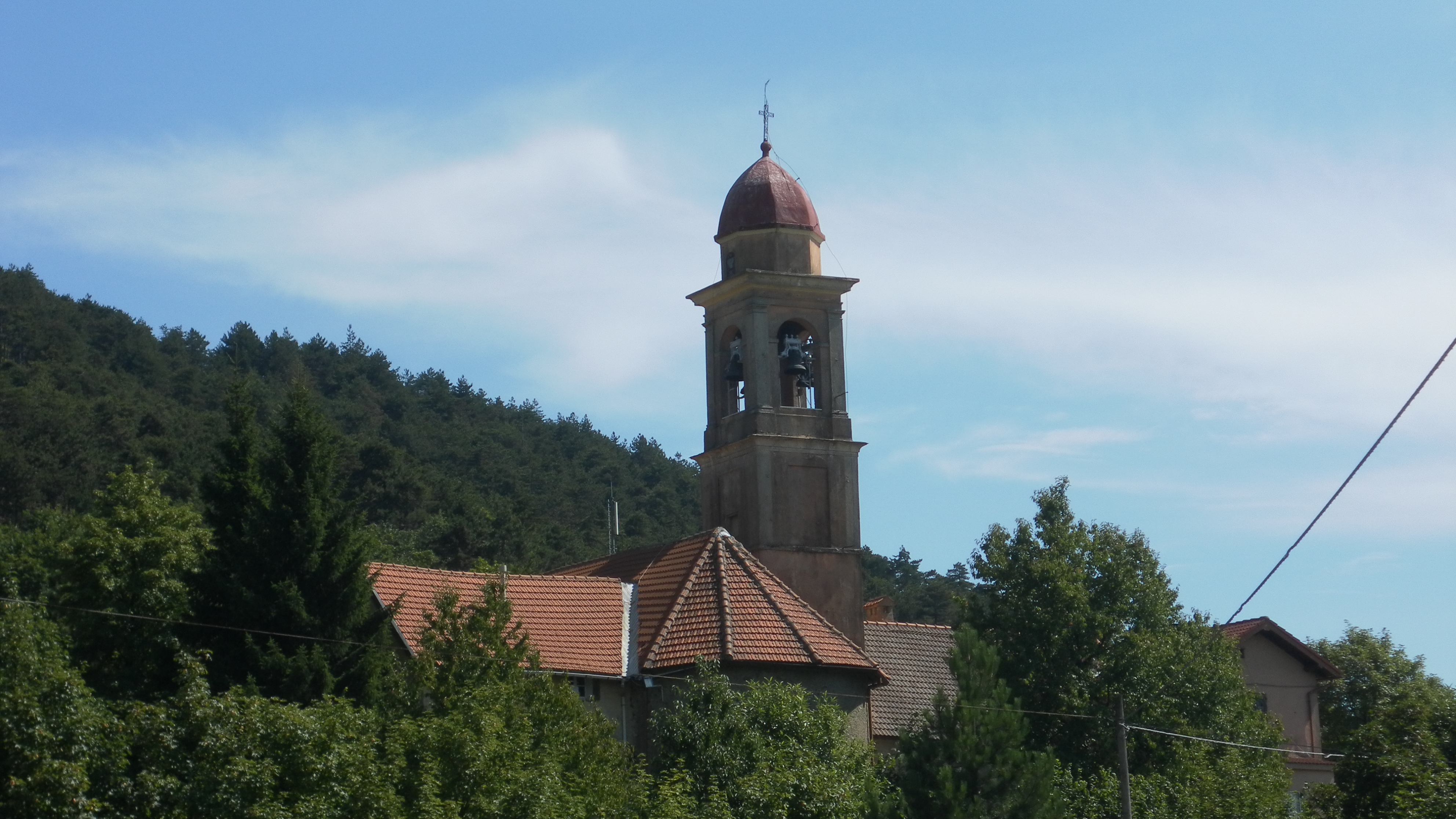 Capanne di Marcarolo, Bosio (AL)